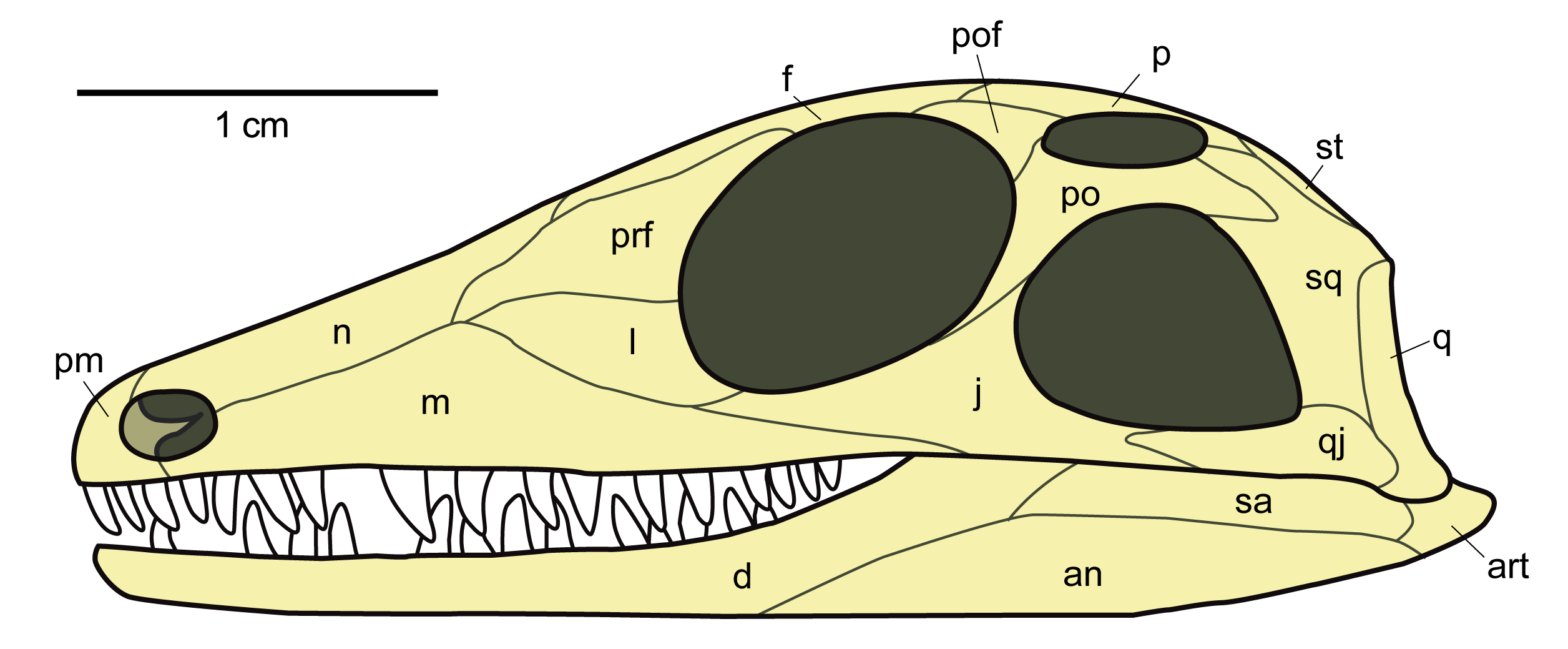 Skull of Youngina capensis, an early diapsid reptile from the Permian of South Africa, in lateral view. After Carroll (1981).[1] Meaning of abbreviations: an = angular, art = articular, d = dentary, f = frontal, j = jugal, l = lacrimal, m = maxilla, n = nasal, p = parietal, pm = premaxilla, po = postorbital, pof = postfrontal, prf = prefrontal, q = quadrate, qj = quadratojugal, sa = surangular, sq = squamosal, st = supratemporal.